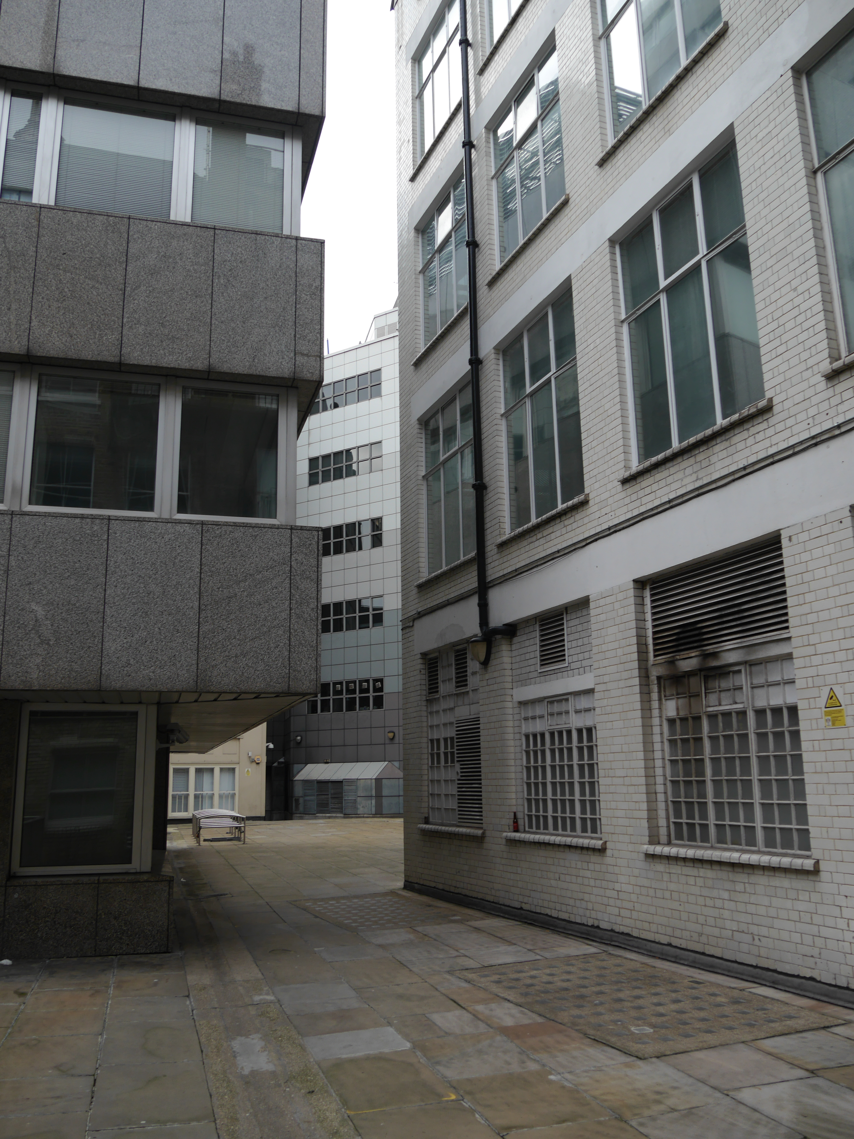 Hanging Sword Alley, January 2018